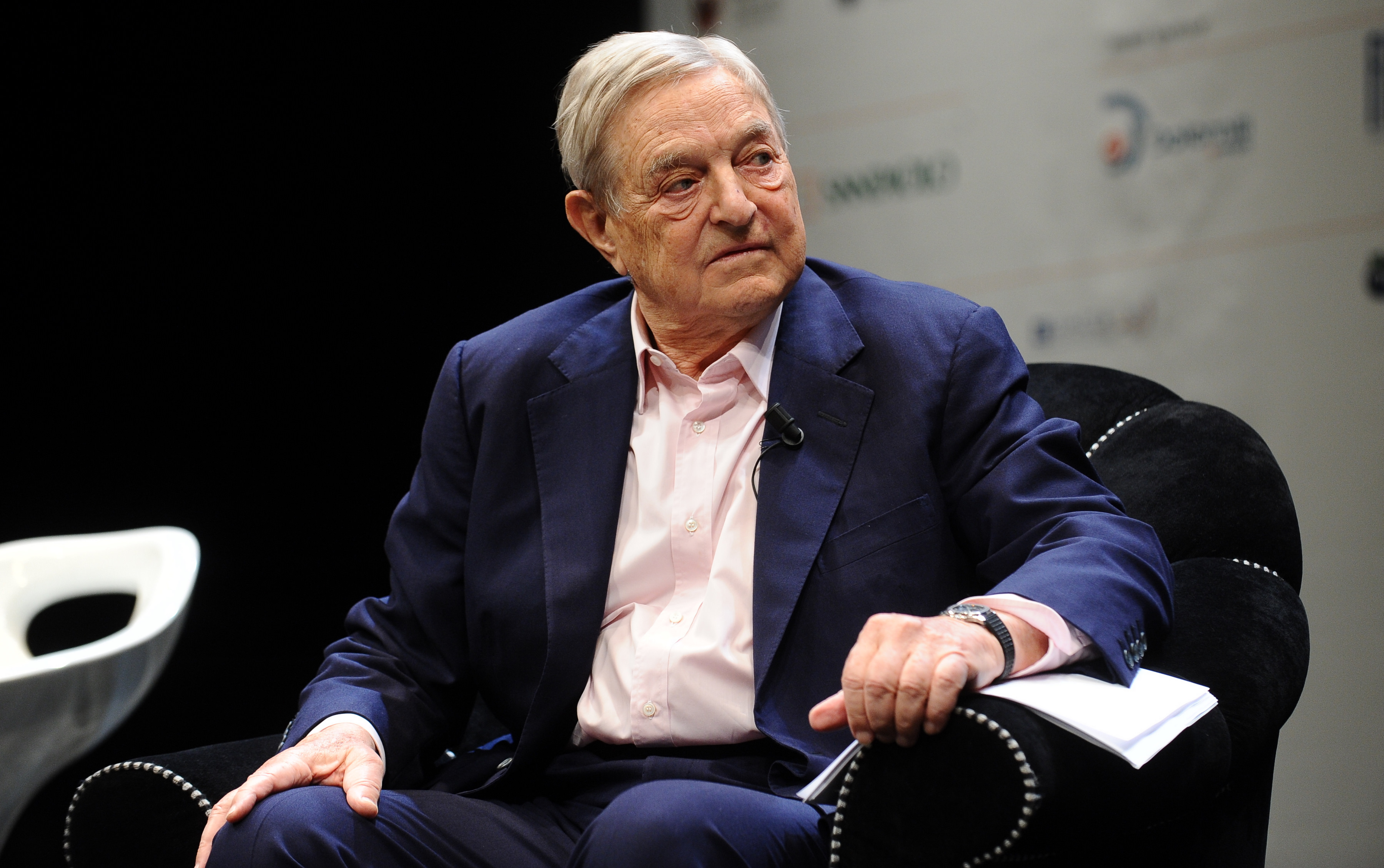 George Soros - Festival of Economics 2012 - Trento